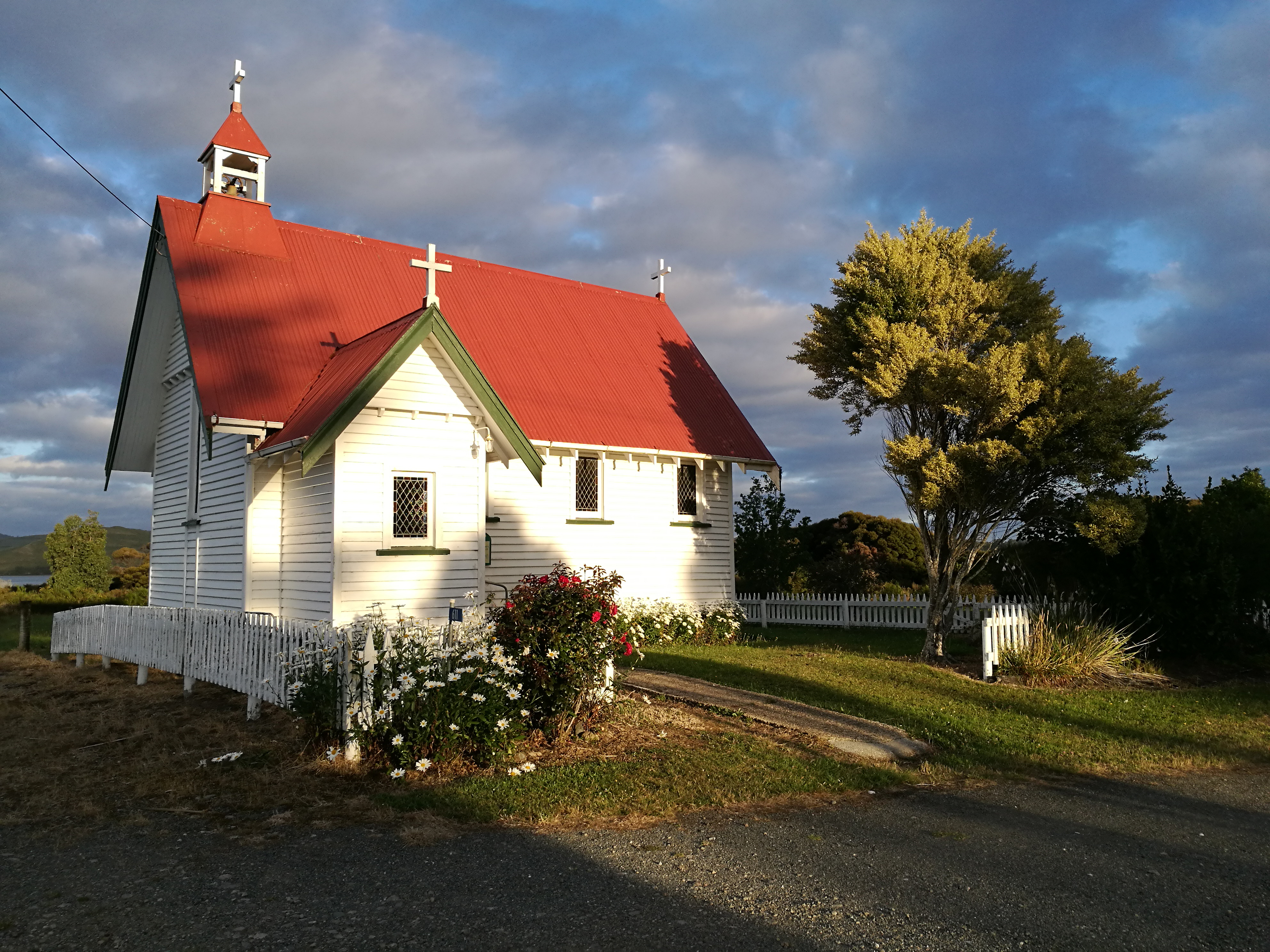 Waikawa, a small settlement in the Catlins, New Zealand (South Island)